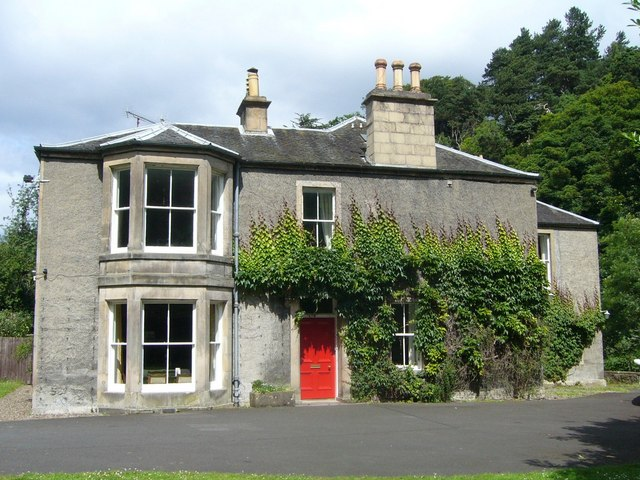 Colinton Manse Robert Louis Stevenson's maternal grandfather, Lewis Balfour (1777–1860), was the minister of the Church of Scotland at Colinton and the young Stevenson spent most of his boyhood holidays at this house. The fresh country air was considered ideal to alleviate his bronchial condition.